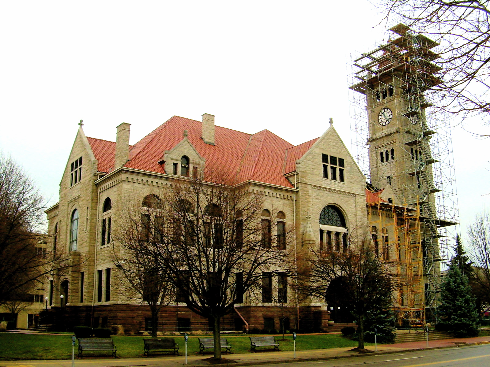 Greene County Courthouse, Detroit Street, Xenia, Ohio.